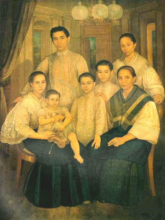 Portrait (oil painting) of QUIAZON FAMILY by Simon Flores de la Rosa, c. 1880.